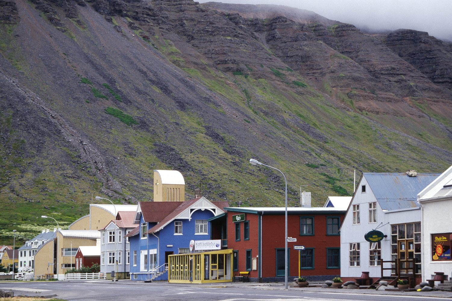 Description: Street in Ísafjörður, northwestern Iceland own image, taken July 11, 2003 Photographer: Herbert Ortner, Vienna, Austria